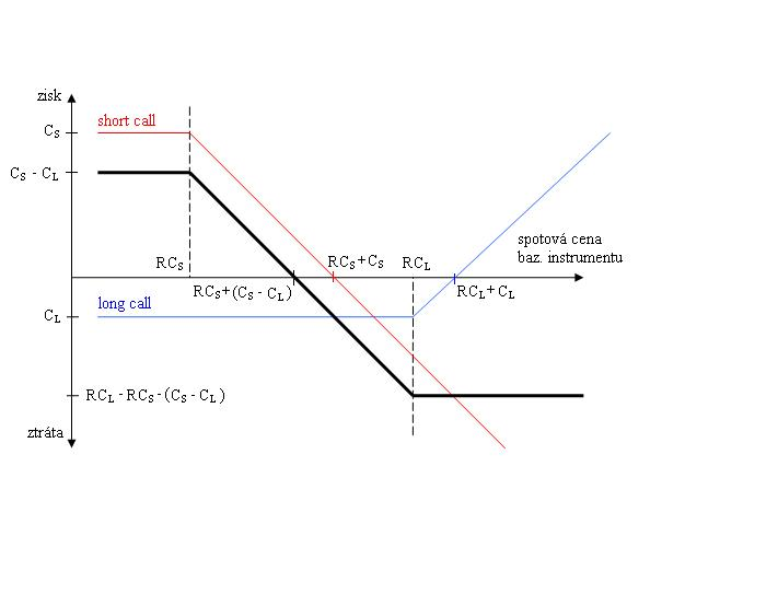 VERTICAL BEAR CALL SPREAD